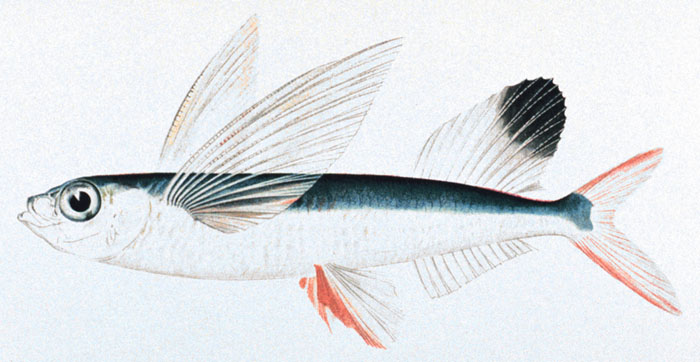 Parexocoetus brachypterus, from The Shore Fishes of the Hawaiian Islands, with a General Account of the Fish Fauna